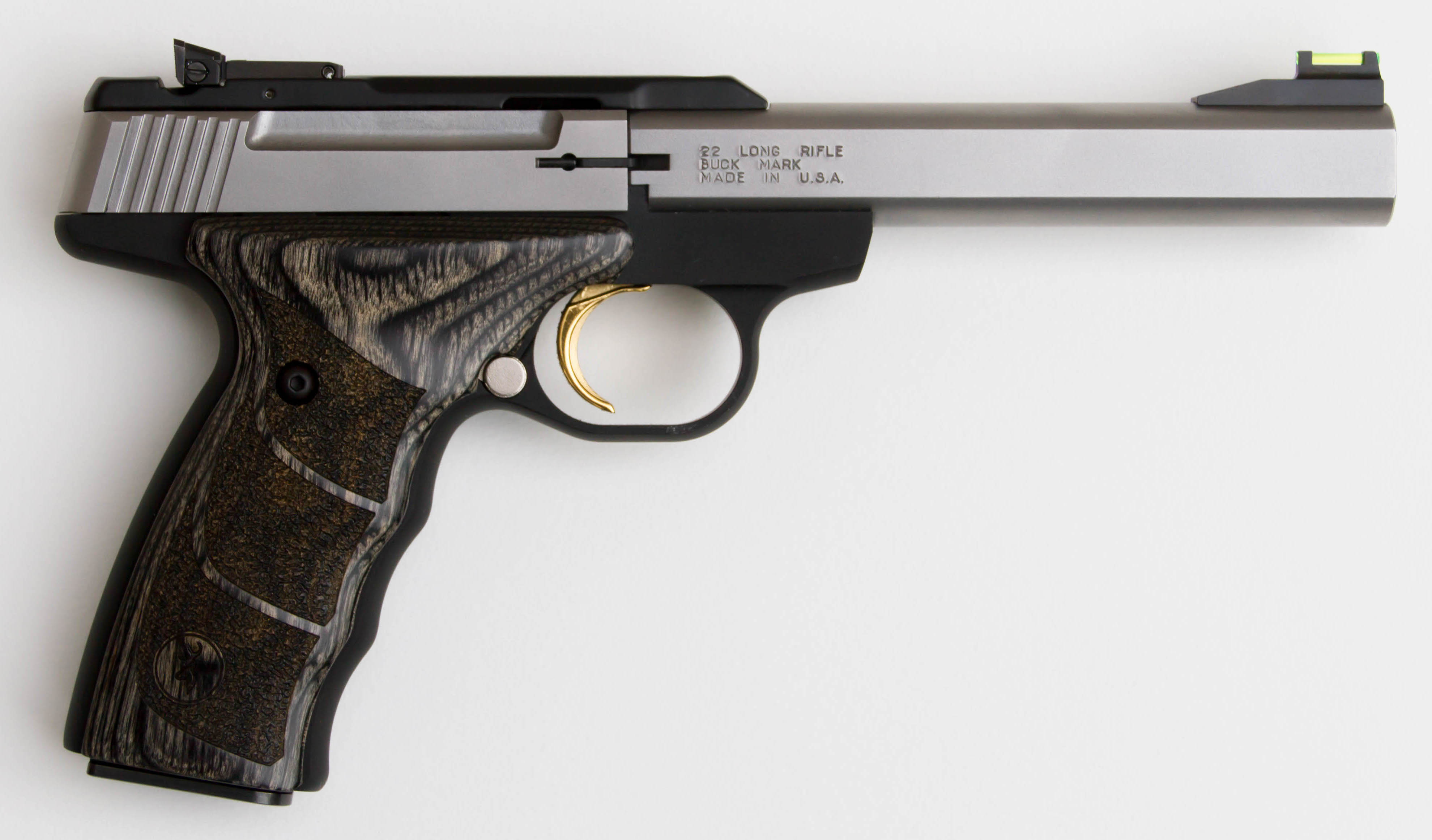 Browning Buck Mark Plus UDX Stainless Steel